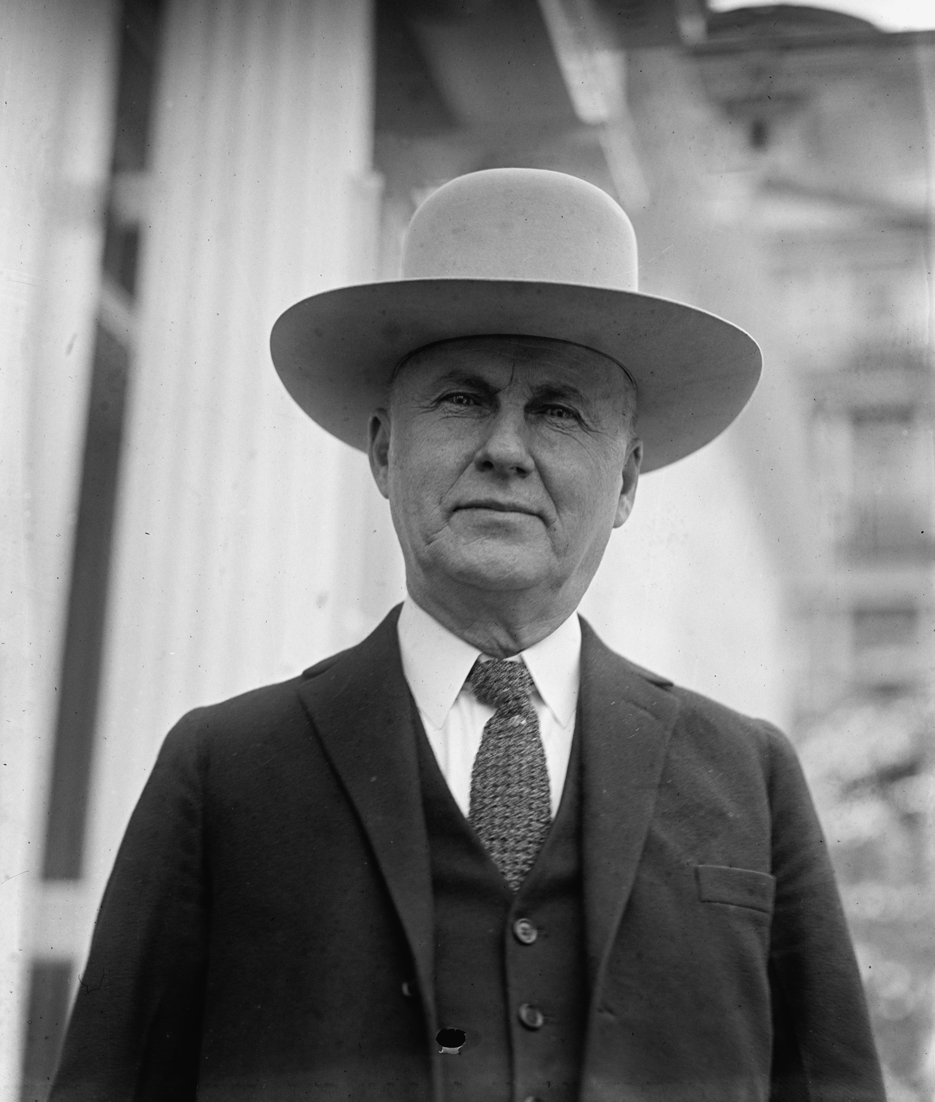 Ralph Henry Cameron, Last Congressional Delegate from Arizona Territory and U.S. Senator from Arizona